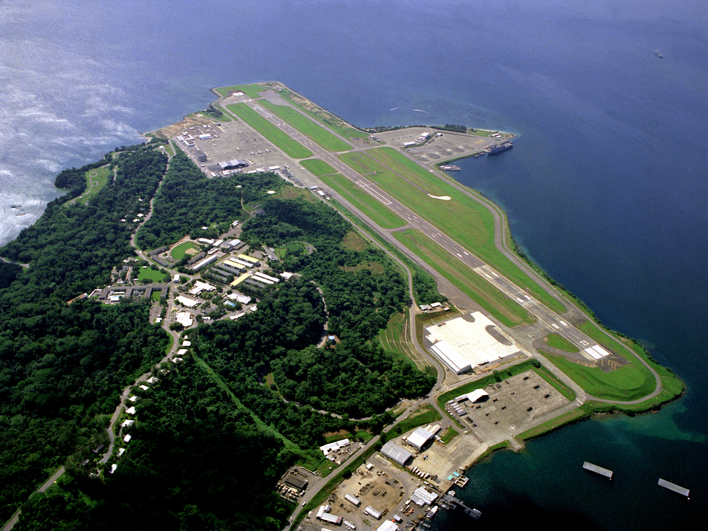 An aerial view of the runway and flight line of the U.S. Naval Air Station Cubi Point, Philippines, on 6 February 1988.